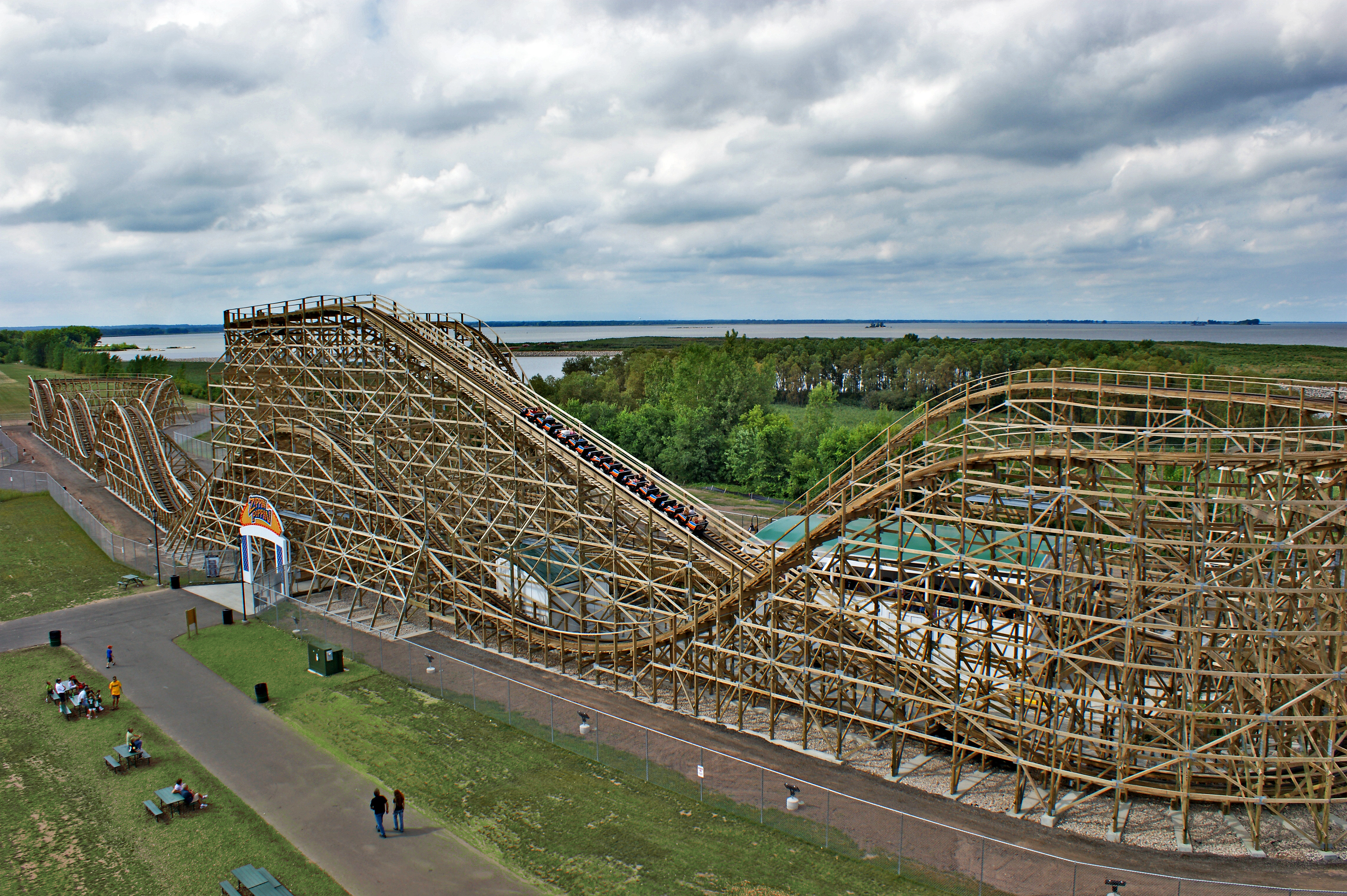 First season of the Zippin Pippin in Green Bay.